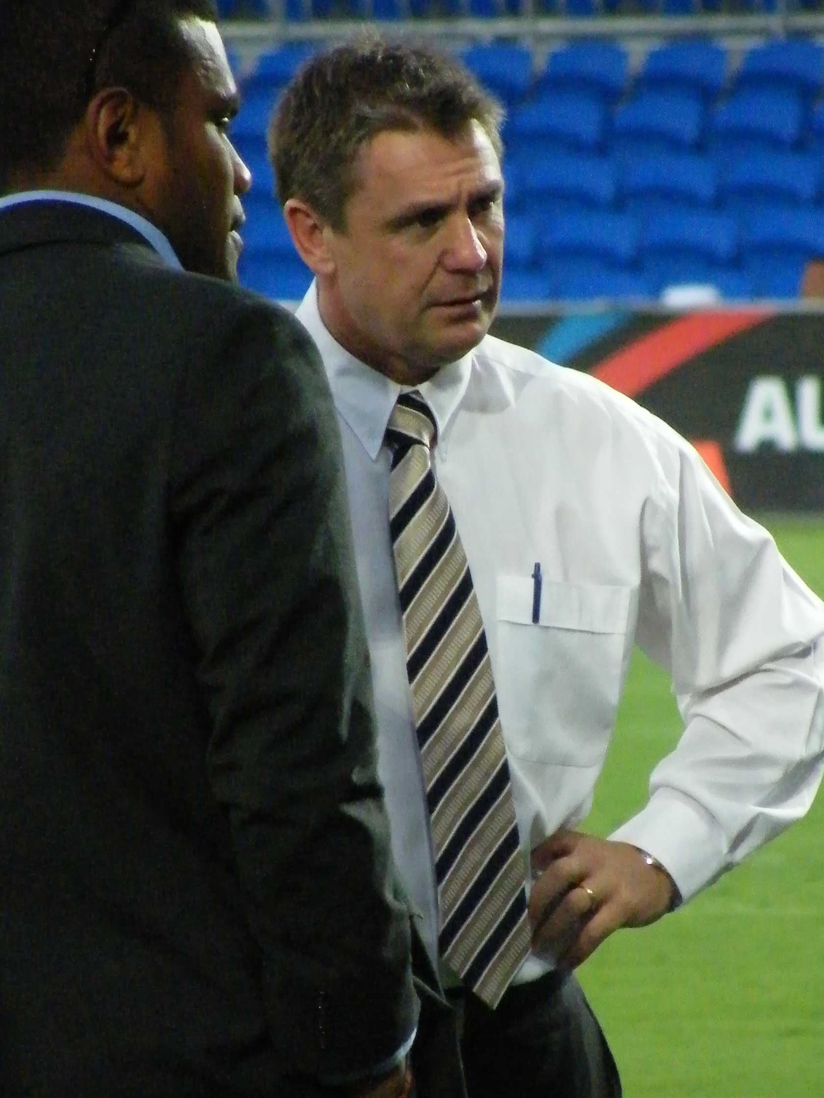 RLWC - Fiji v Ireland, Gold Coast 2008. Commentator Gary Freeman.